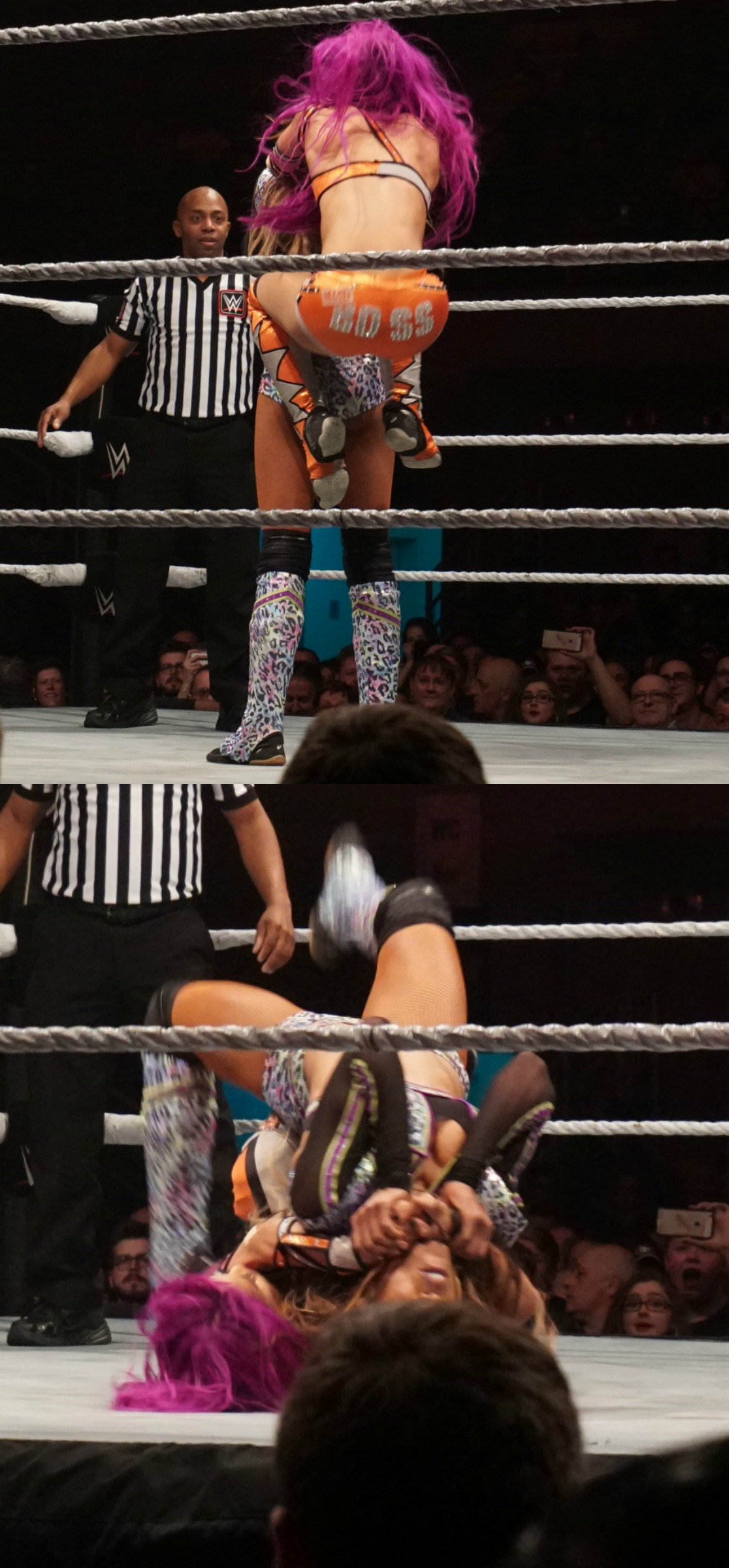 Sasha Banks performs her signature backstabber into a transition for her "Banks Statement" finishing move on Alicia Fox during a WWE live event in May 12, 2017.